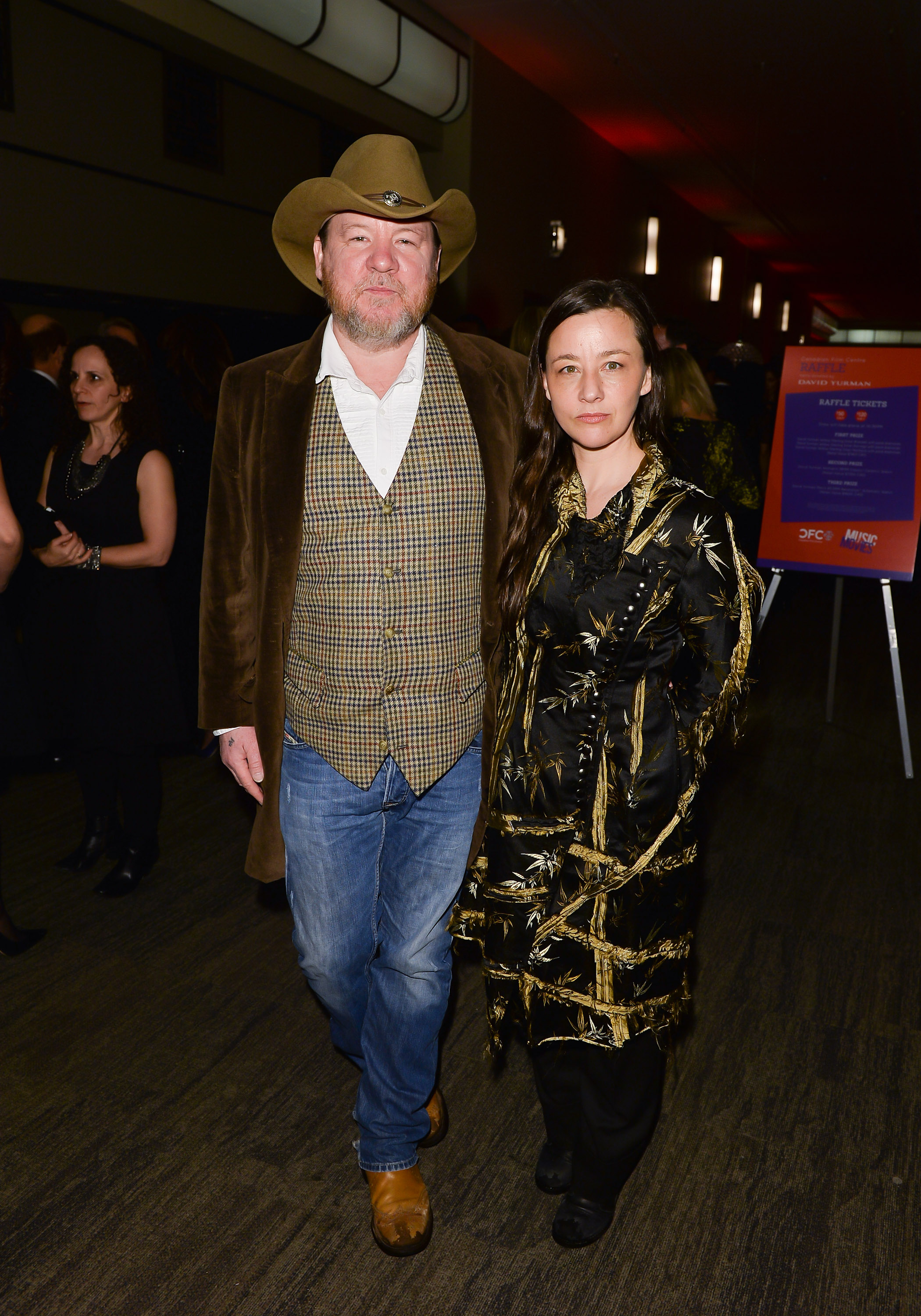 Director Bruce McDonald & Dany Chaisson This year, the CFC Annual Gala & Auction took guests on a spectacular journey through film with MUSIC & MOVIES.